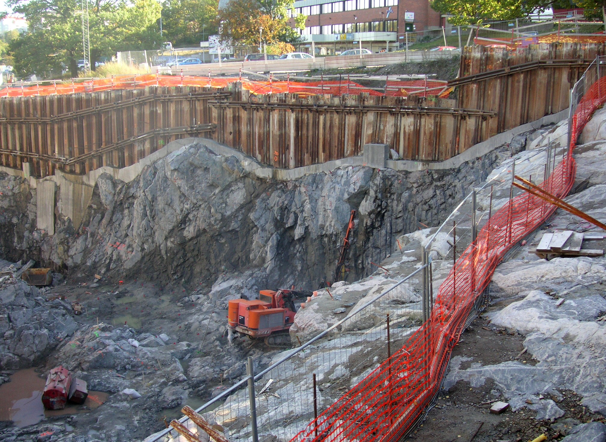 Northern Link, Stockholm, construction of the link at the Deer Park at Norra Djurgården.